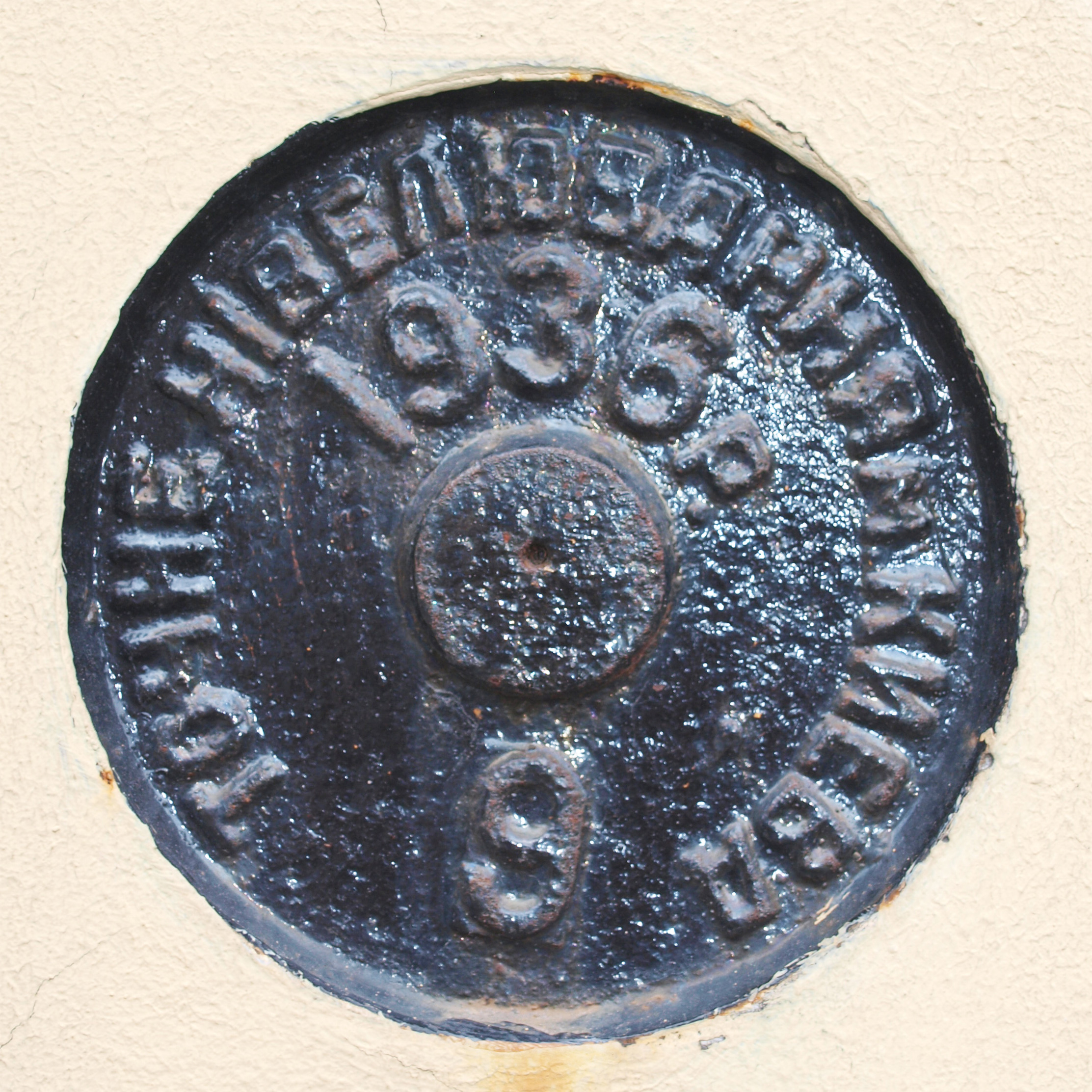 Levelling marker in Kyiv (1936)